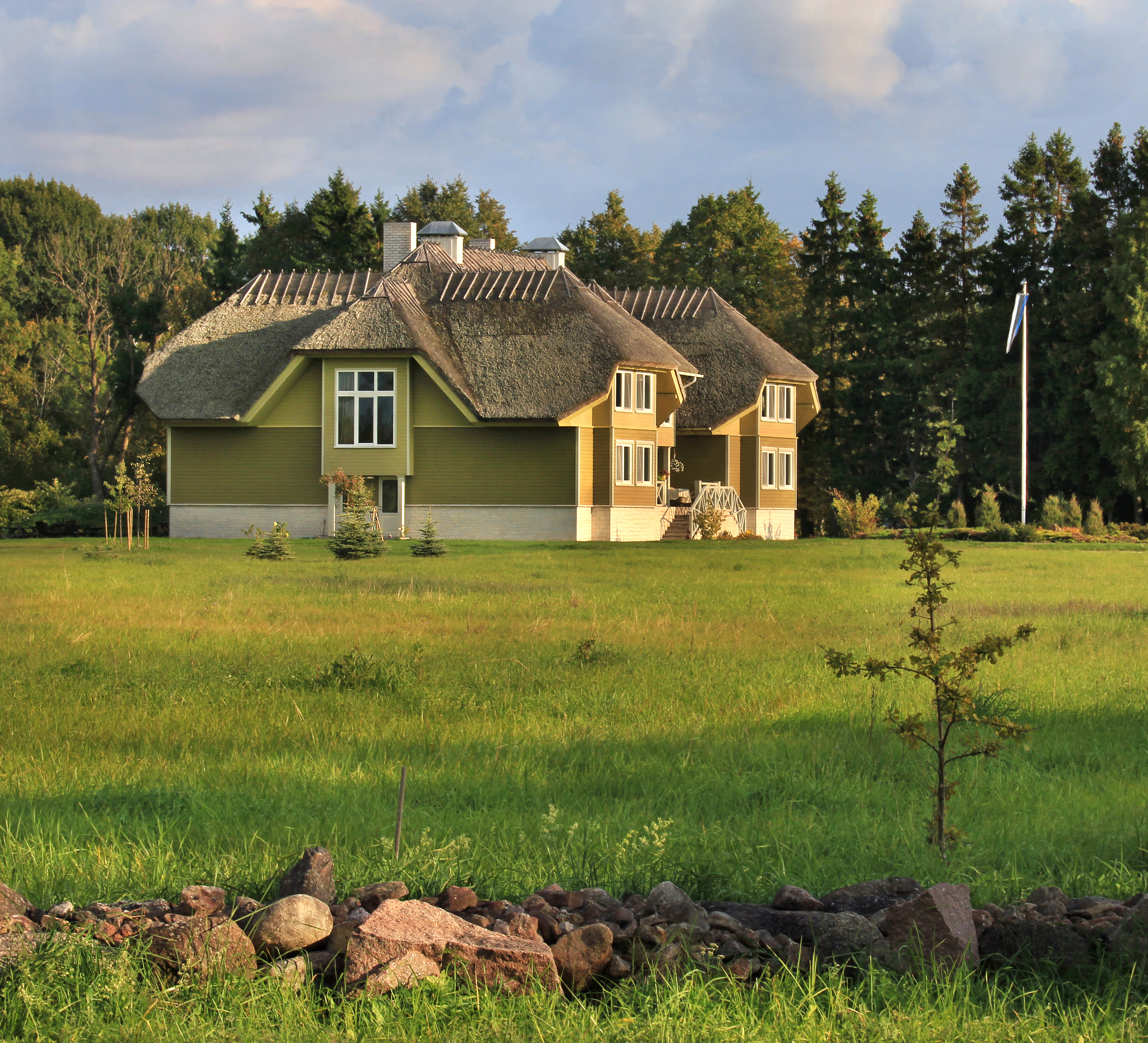 Guest house Altmyysa is located in Western Estonia